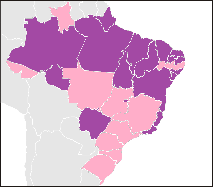 The LGBT adoption is legal nationwide. The division of the: 10 States where already ocurred the LGBT adoption; 16 States that yet not occurred the LGBT adoption.